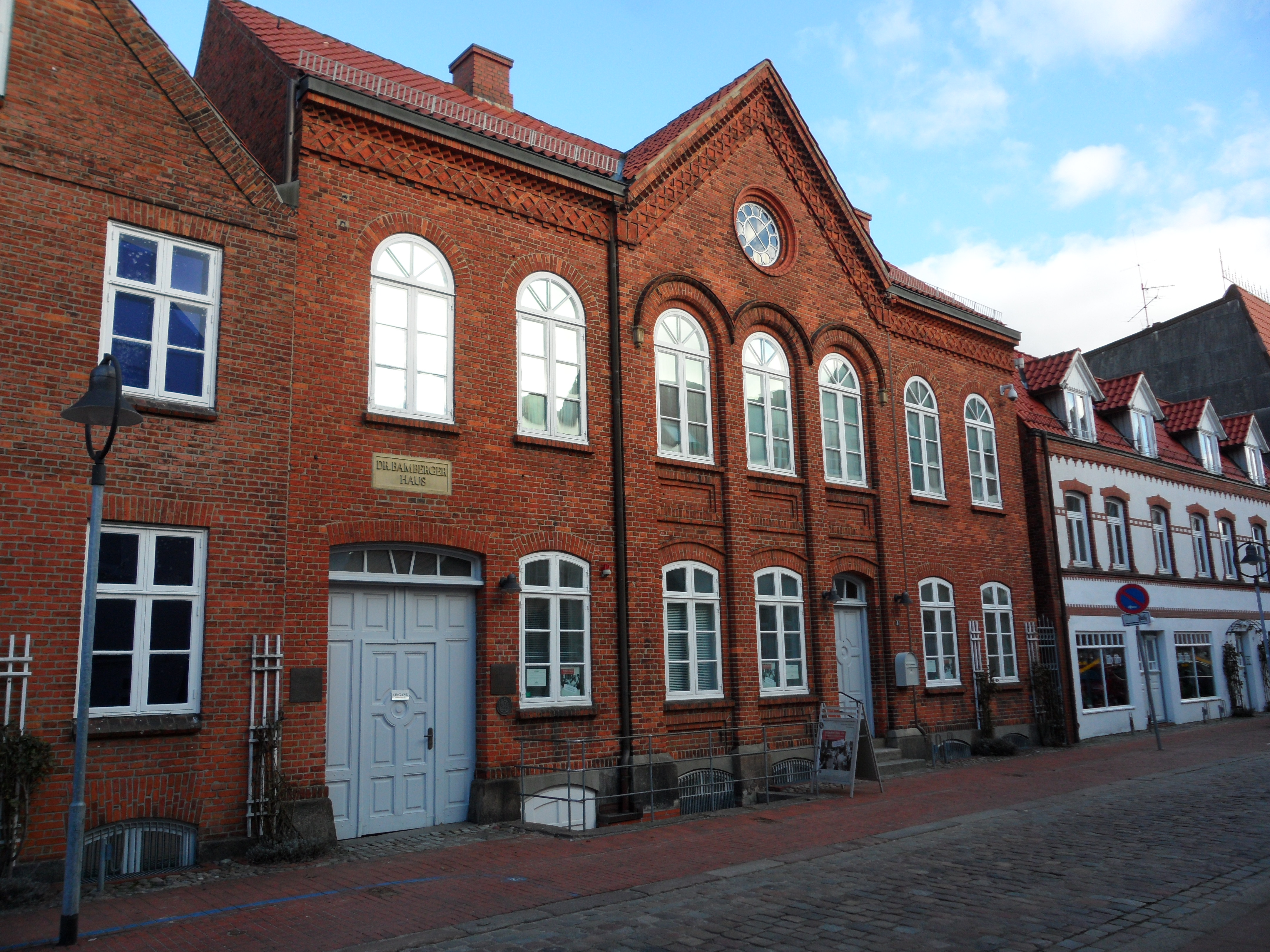 The Jewish museum in Rendsburg, Germany